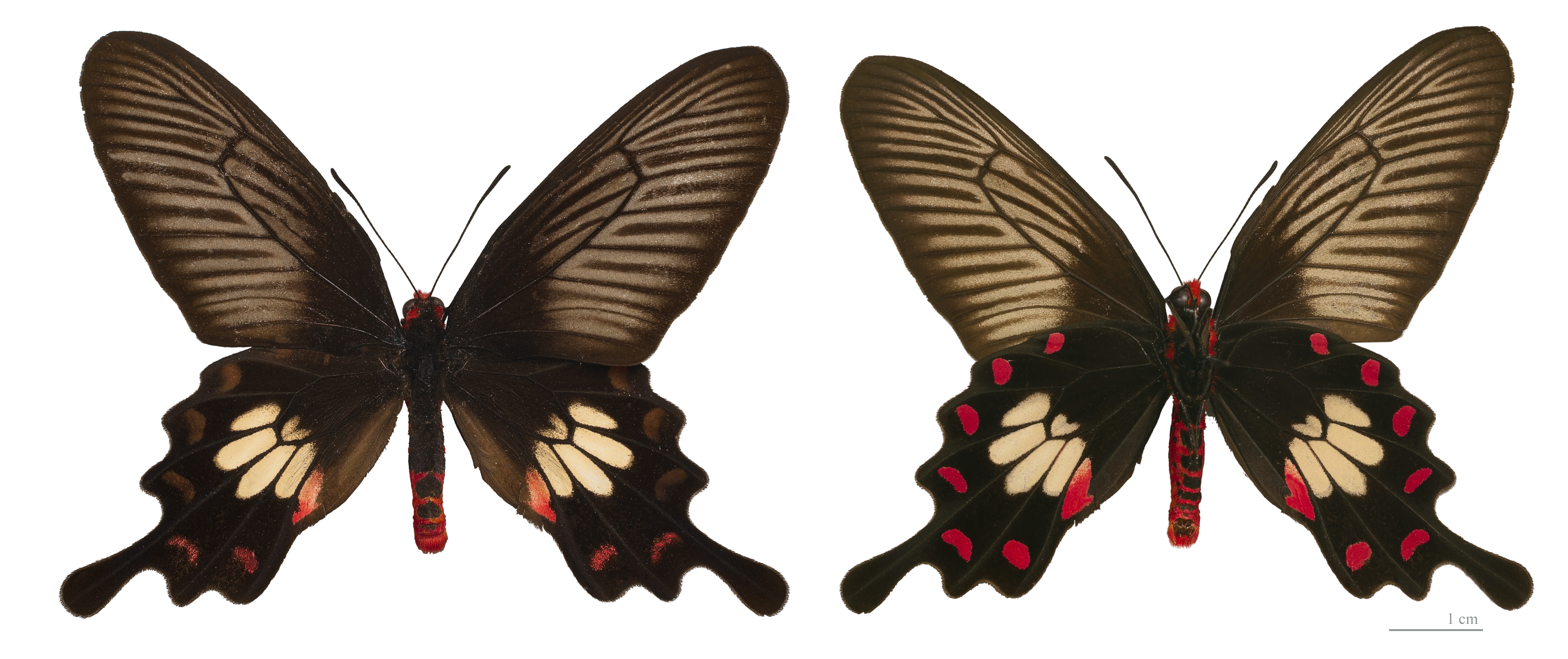 ♂ - Two views of same specimen Locality: Chiang Dao, Chiang Mai Province, Thailand.